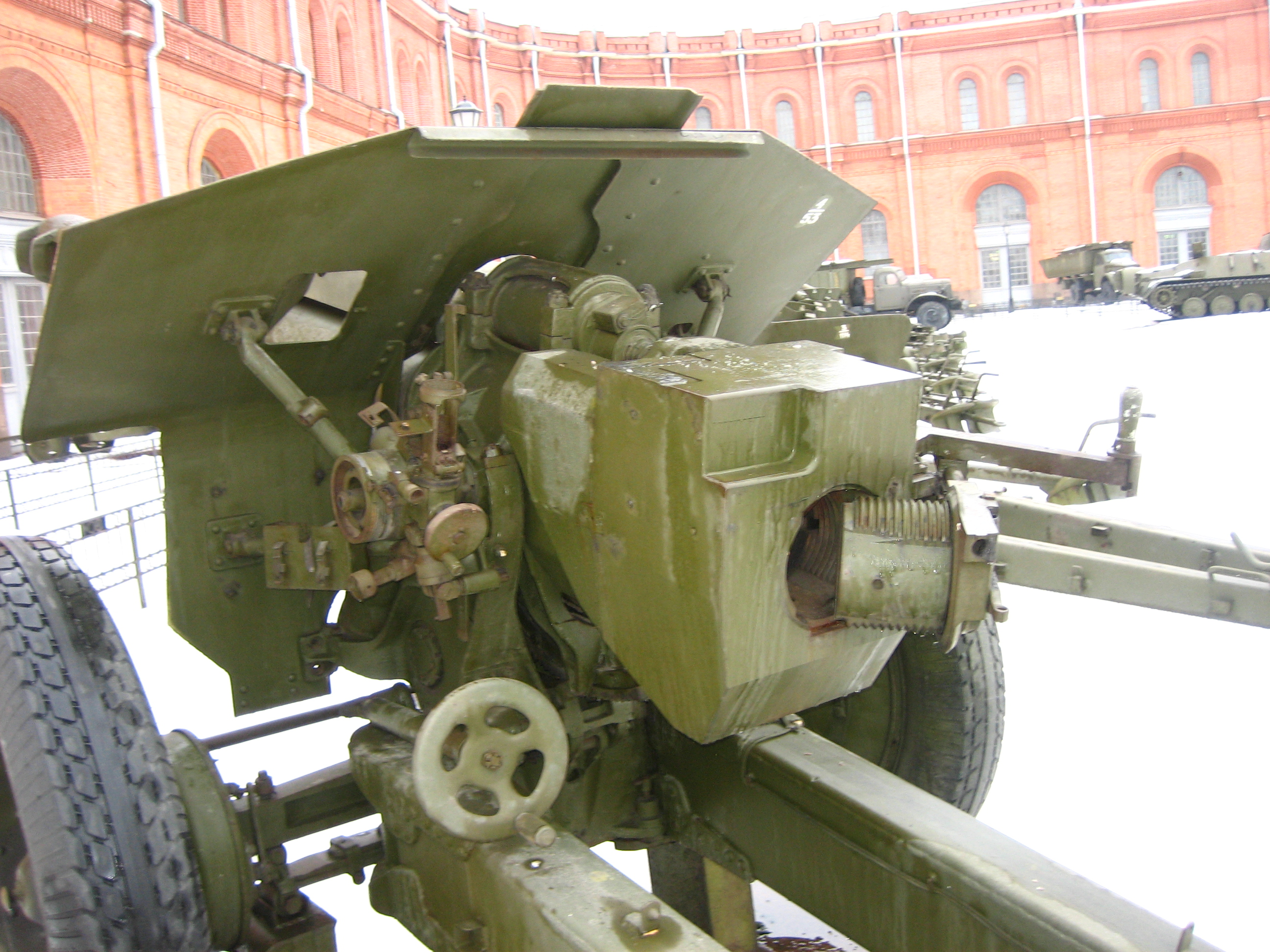 Soviet 152mm mm D-1 Mark 1943 howitzer, displayed in Saint Petersburg Artillery Museum. Photo taken on 3 Marсh, 2007. Source: Photo by me, User:Saiga20K.